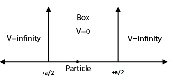 A particle in 1D space with some boundary condition